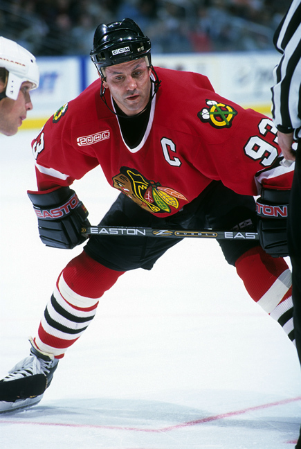 Gilmour playing for the Chicago Blackhawks during the 1999-2000 season.